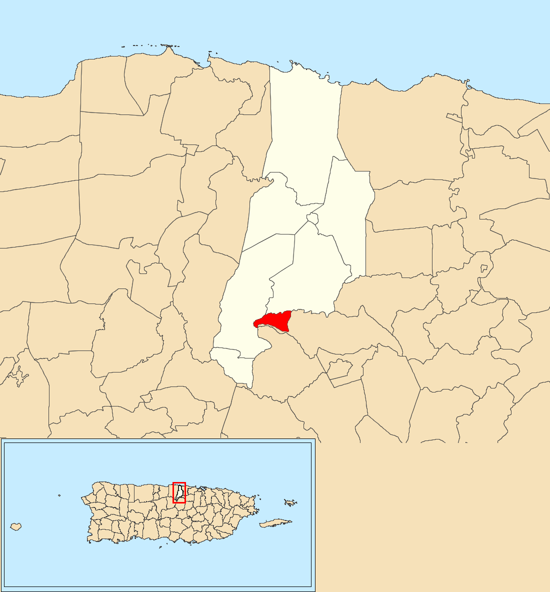 Mavilla, Vega Alta, Puerto Rico locator map